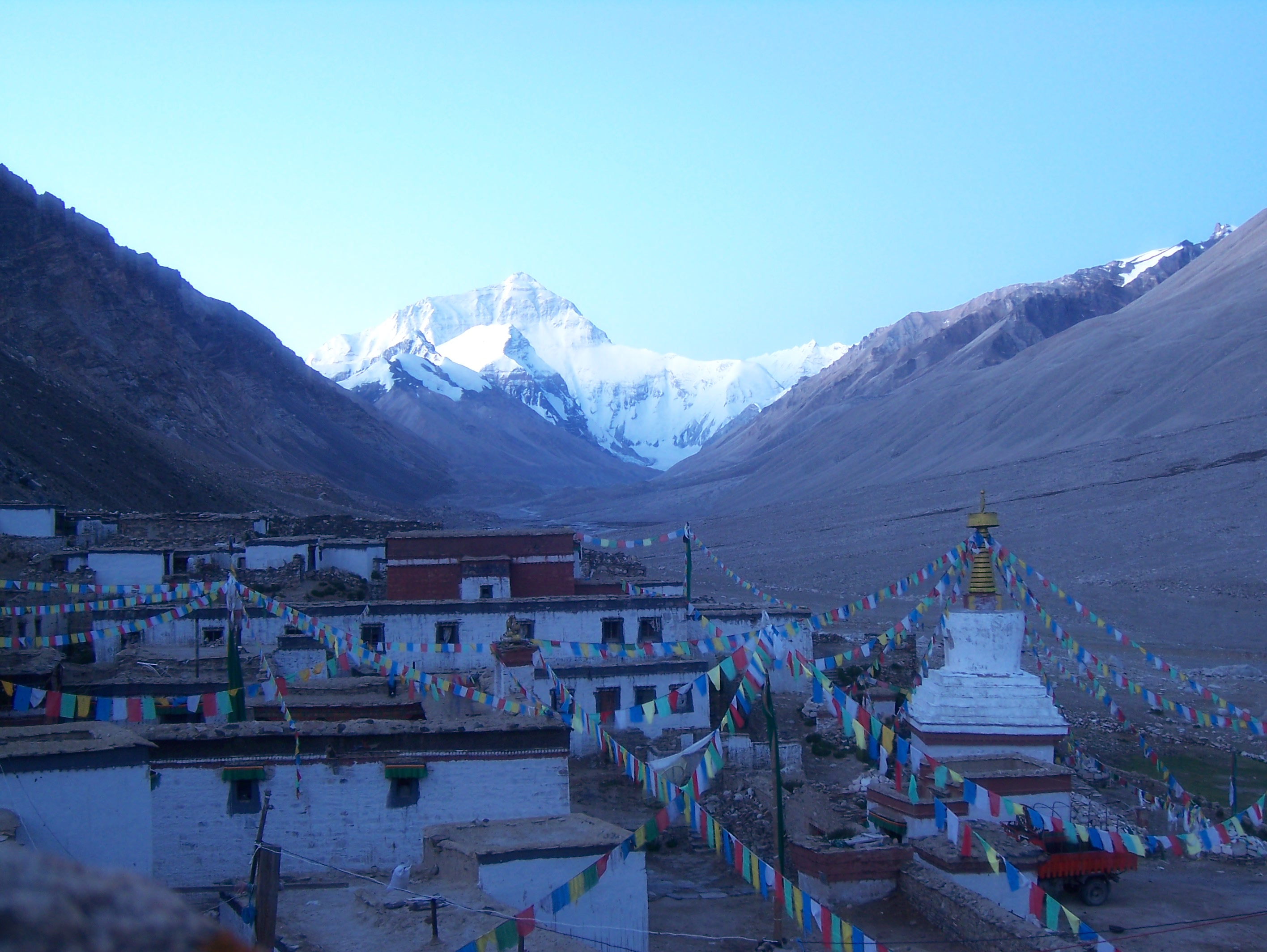 A picture of Rongphu monastery. Taken by Ethan Lutske, and uploaded with his permission.